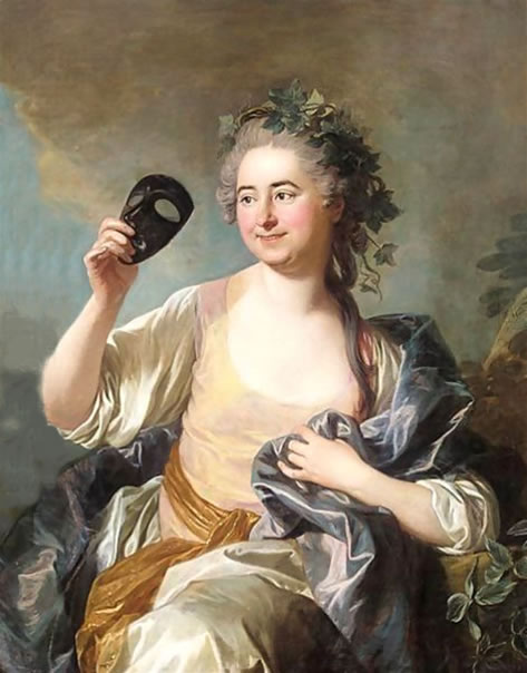 Portrait of Françoise-Marie-Jeanne Picquefeu de Longpré (ca 1727-1789), wife (1746) of Jean-Louis Randon de Malboissière (died 1763), than (27 October 1766) Étienne-Louis Desmiers, comte d'Archiac. She is depicted as Thalia, Muse of Comedy. as Thalia, Muse of Comedy